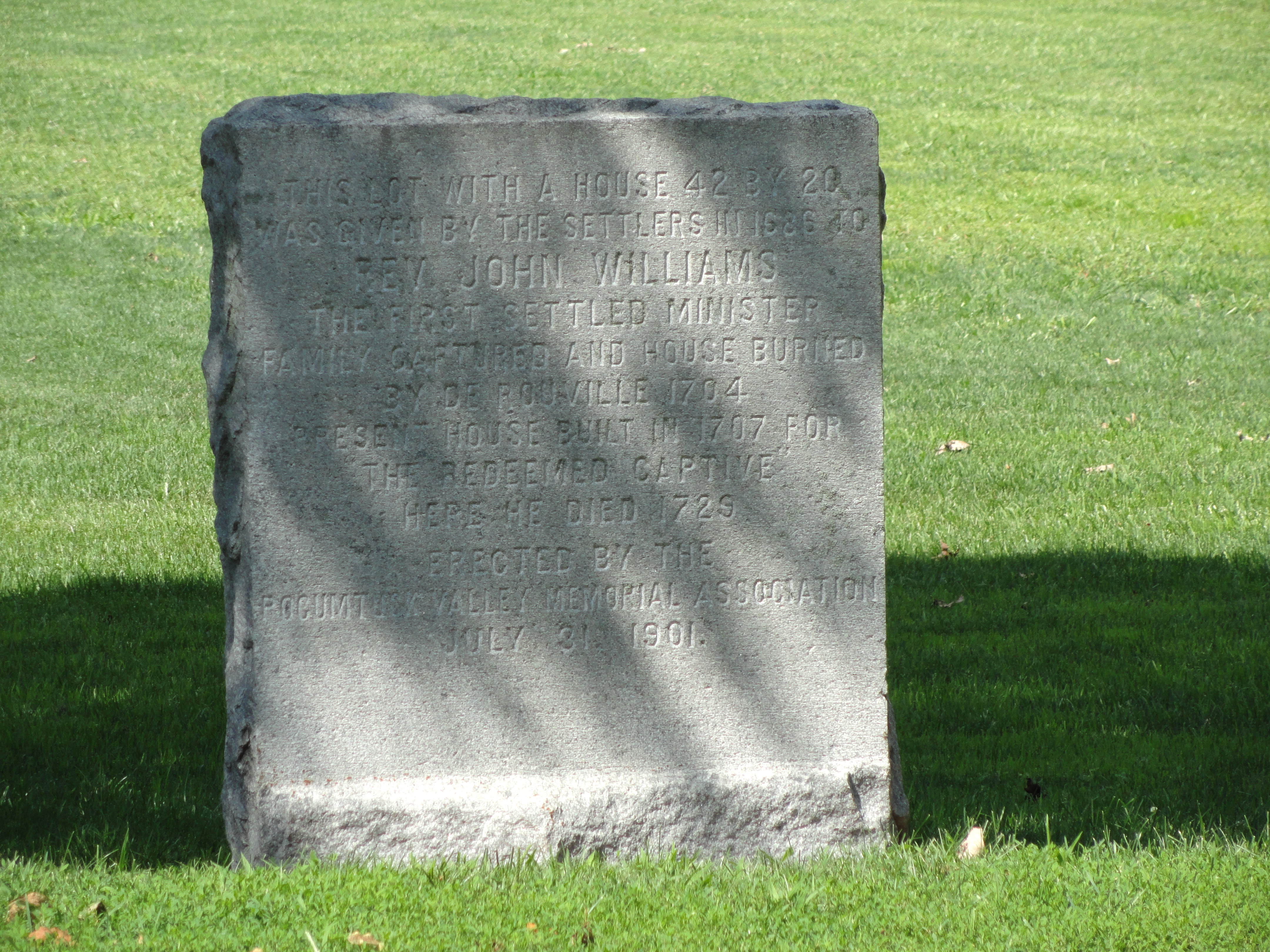 Rev. John Williams memorial, Deerfield, Massachusetts, USA.